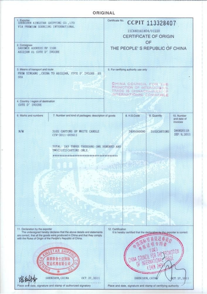 Sample of an authorized certification CO